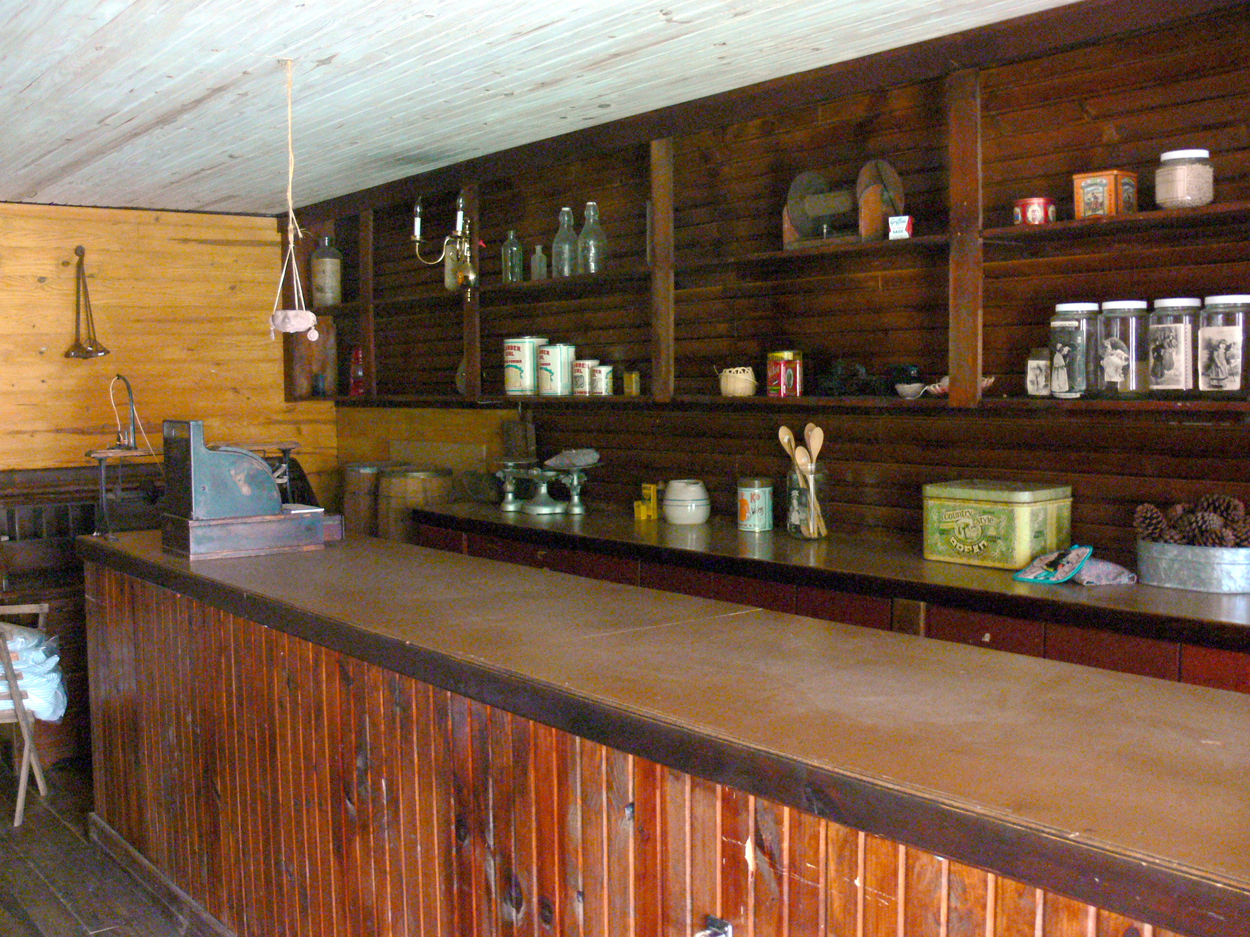 Cherokee Heritage Center ( Tahlequah / Oklahoma ). Adams Corner village: General store - service counter.